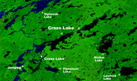 Portion of NASA map showing Cross Lake in Manitoba (Captions have been added by Kayoty)